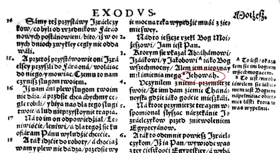 Exodus 6:3 in early Polish Bible translation (protestant Brzeska or Radziwill Bible 1563), including God's name Jehovah.